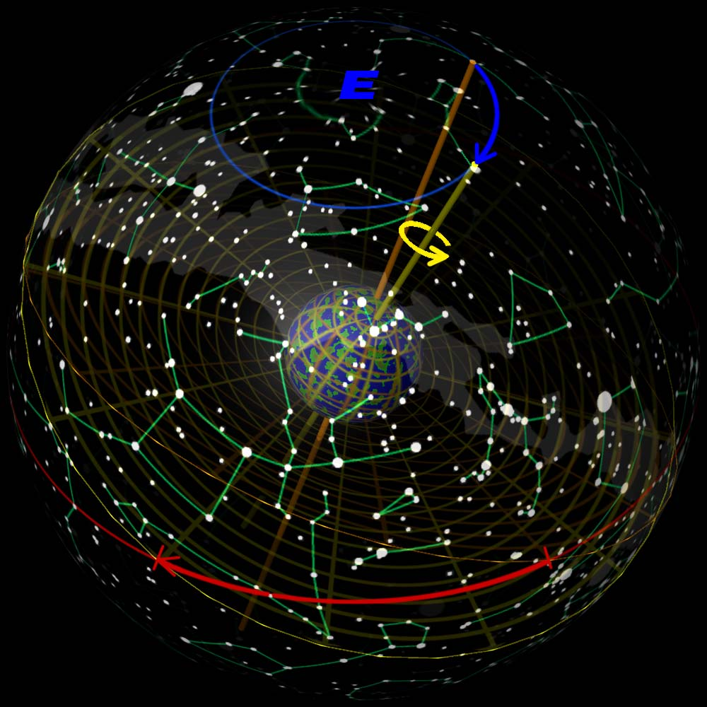 মহাবিশ্বের বাইরে থেকে দৃশ্য মহাবিষুব ও (মেরু)অক্ষীয় (equinox) অয়নচলন (Precession) of the as seen from 'outside' the celestial dome. The shift of the Earth's polar axis over 5000 year among the stars (orange: 3000 BC at Thuban, yellow: 2000 AD at Polaris) goes together with a shift of the equatorial planes and therefore the equinoxes along the ecliptic. It is important to note that this image is not a perspective that appears in nature, as the locations of the stars are projections onto the celestial sphere only as they appear from Earth.